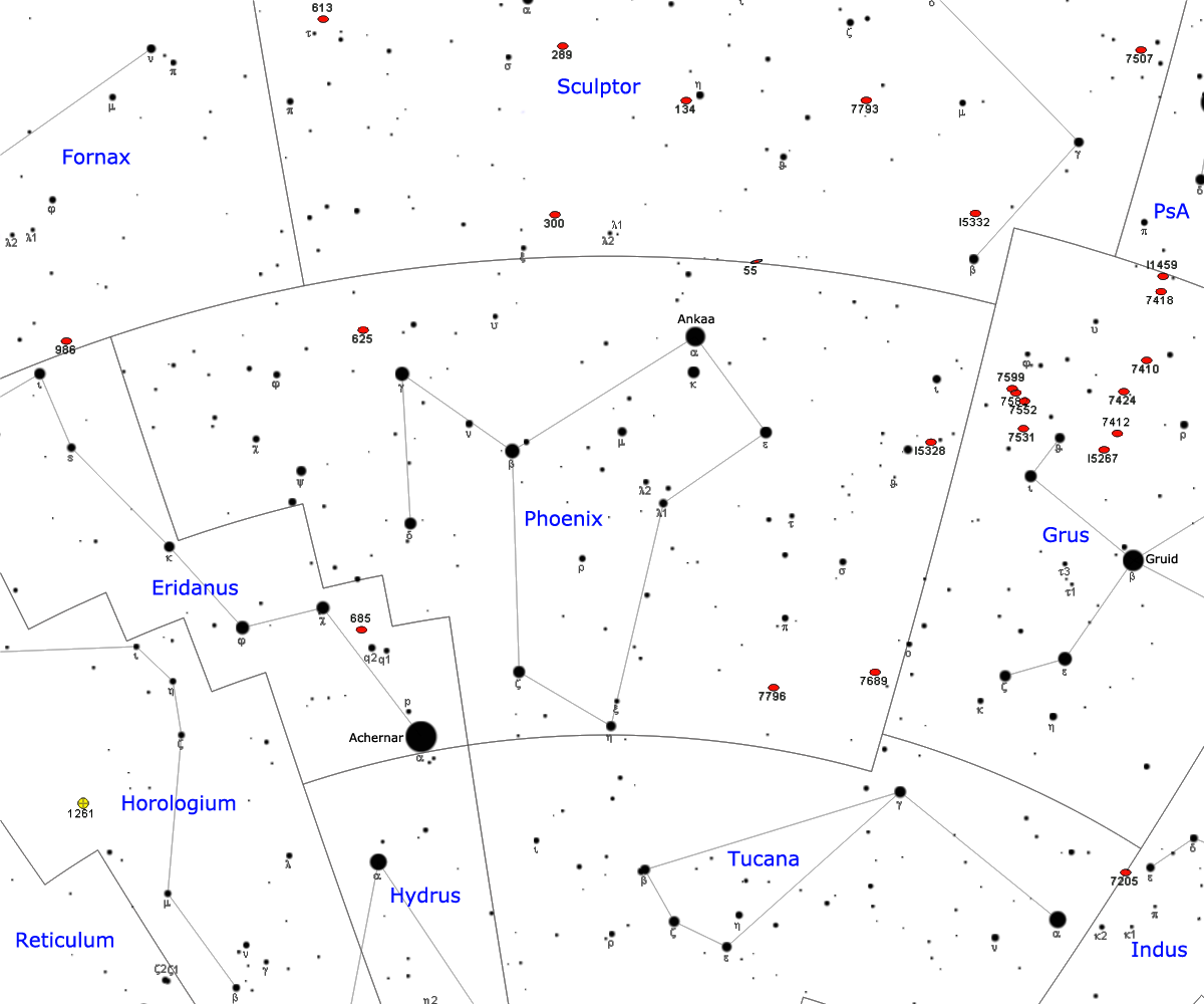 Map of Phoenix